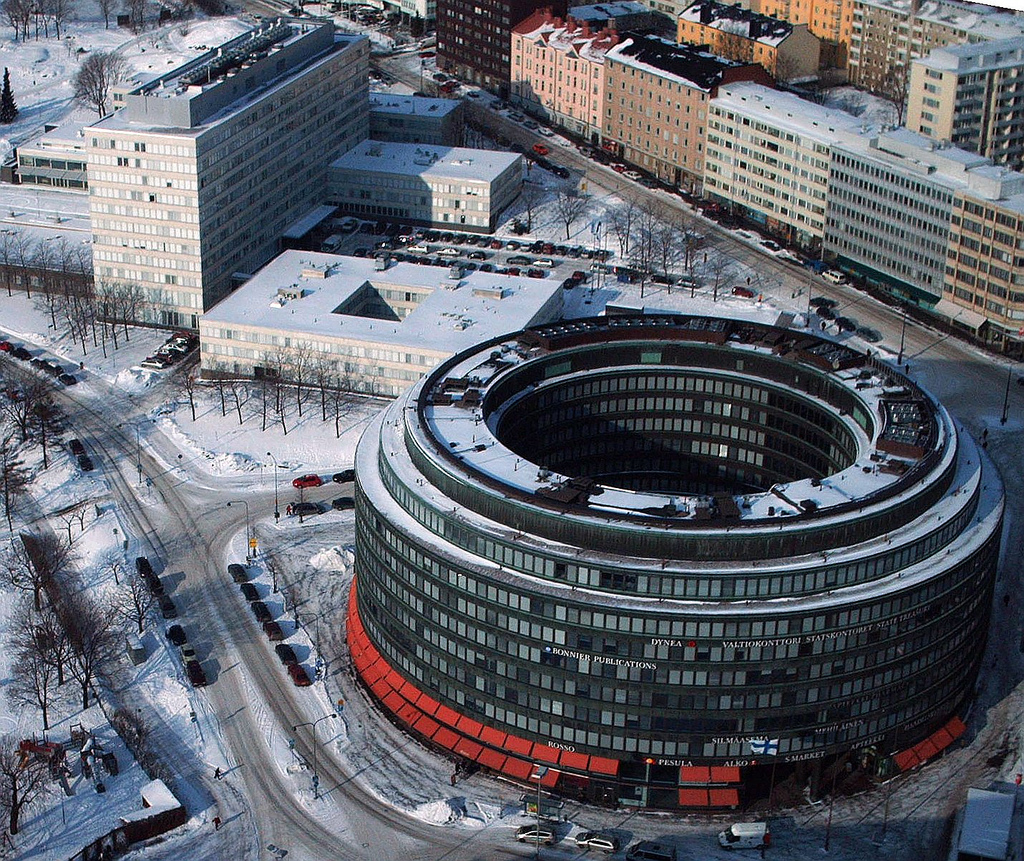 Ympyrätalo in Hakaniemi, Helsinki from air